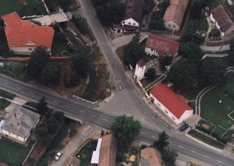 Mánfa, Hungary, aerialphotography